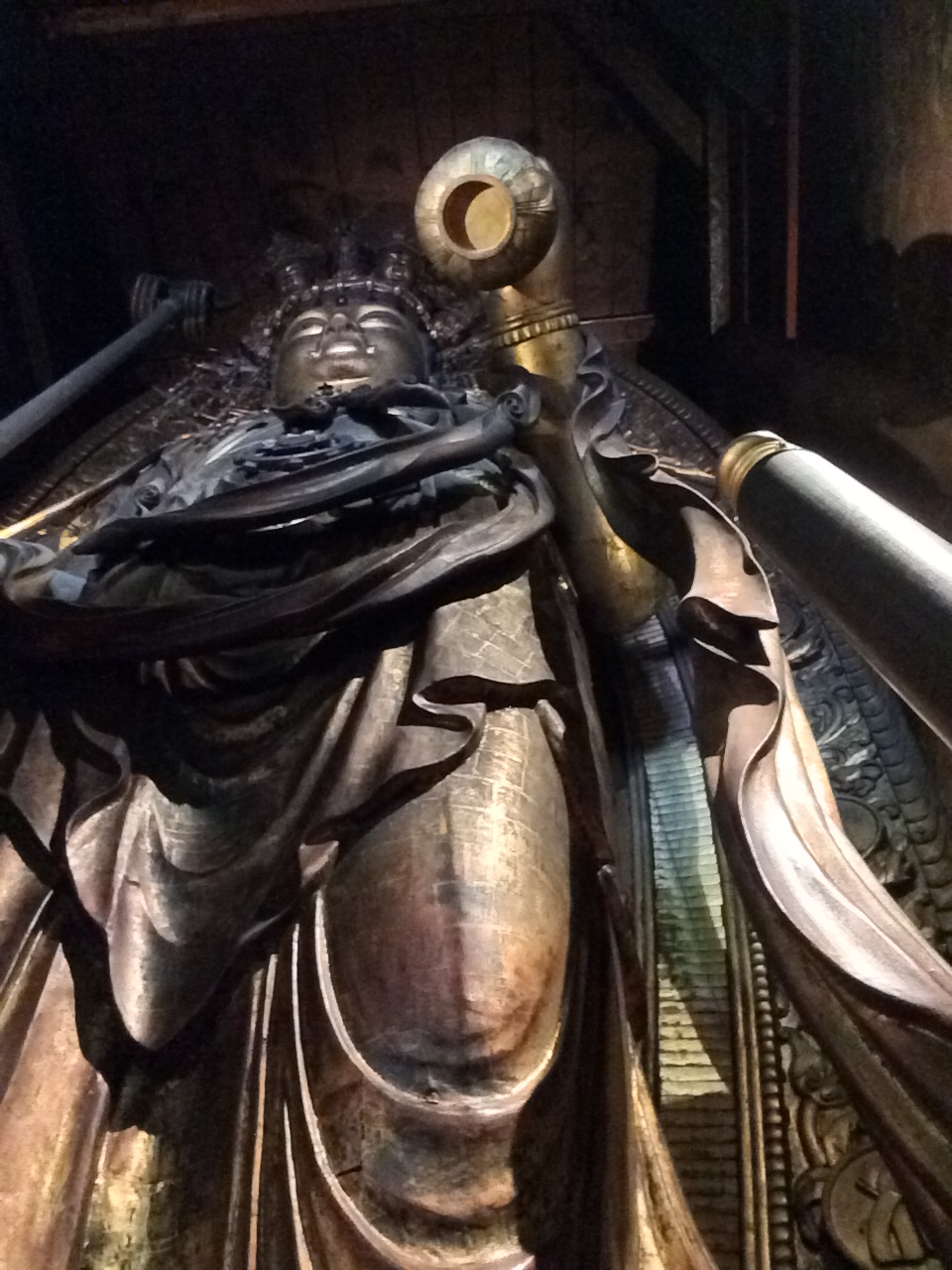 Kannon-statue in the Hase-Temple (Hasedera) of Sakurai (Japan) seen from the (usually closed) internal chamber of the main-hall